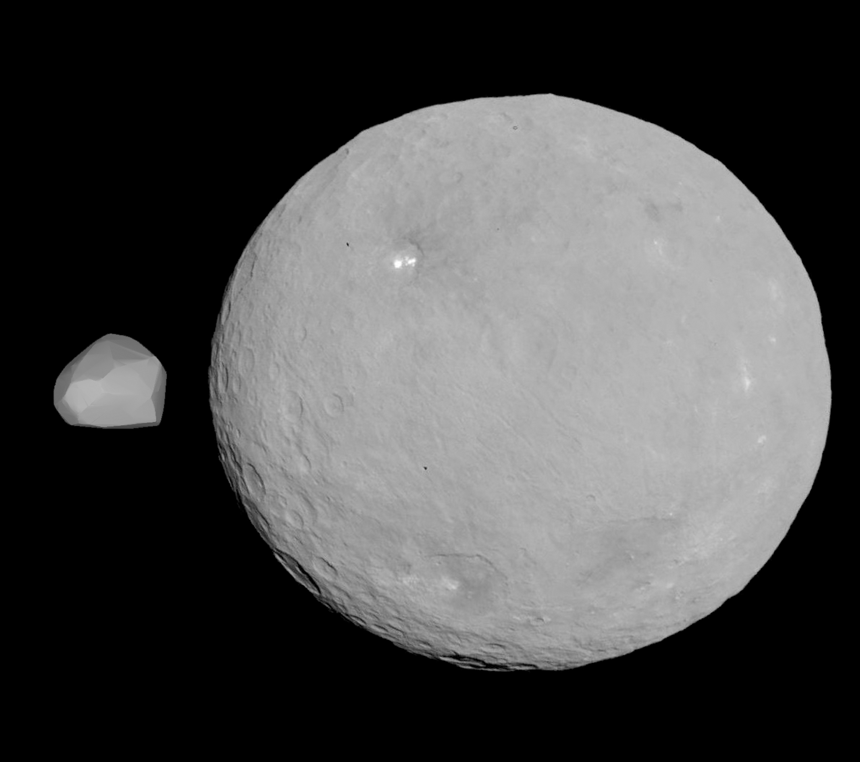 Diameter comparison of 5 Astraea and Ceres.